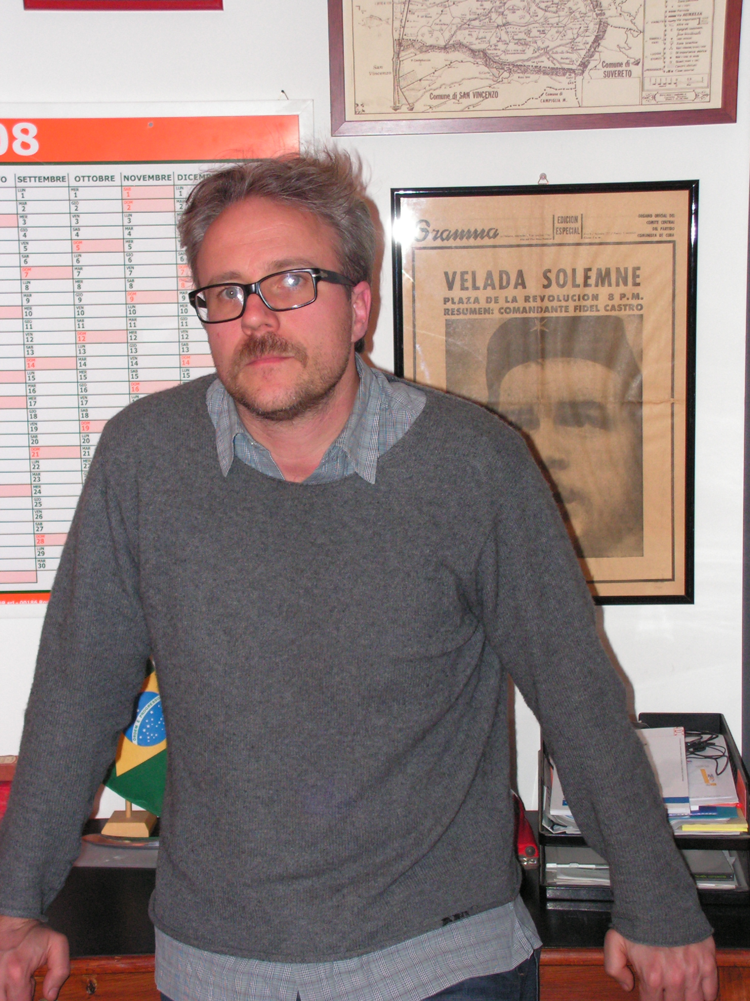 Ago Panini, recently interviewed by Wikinews Italy